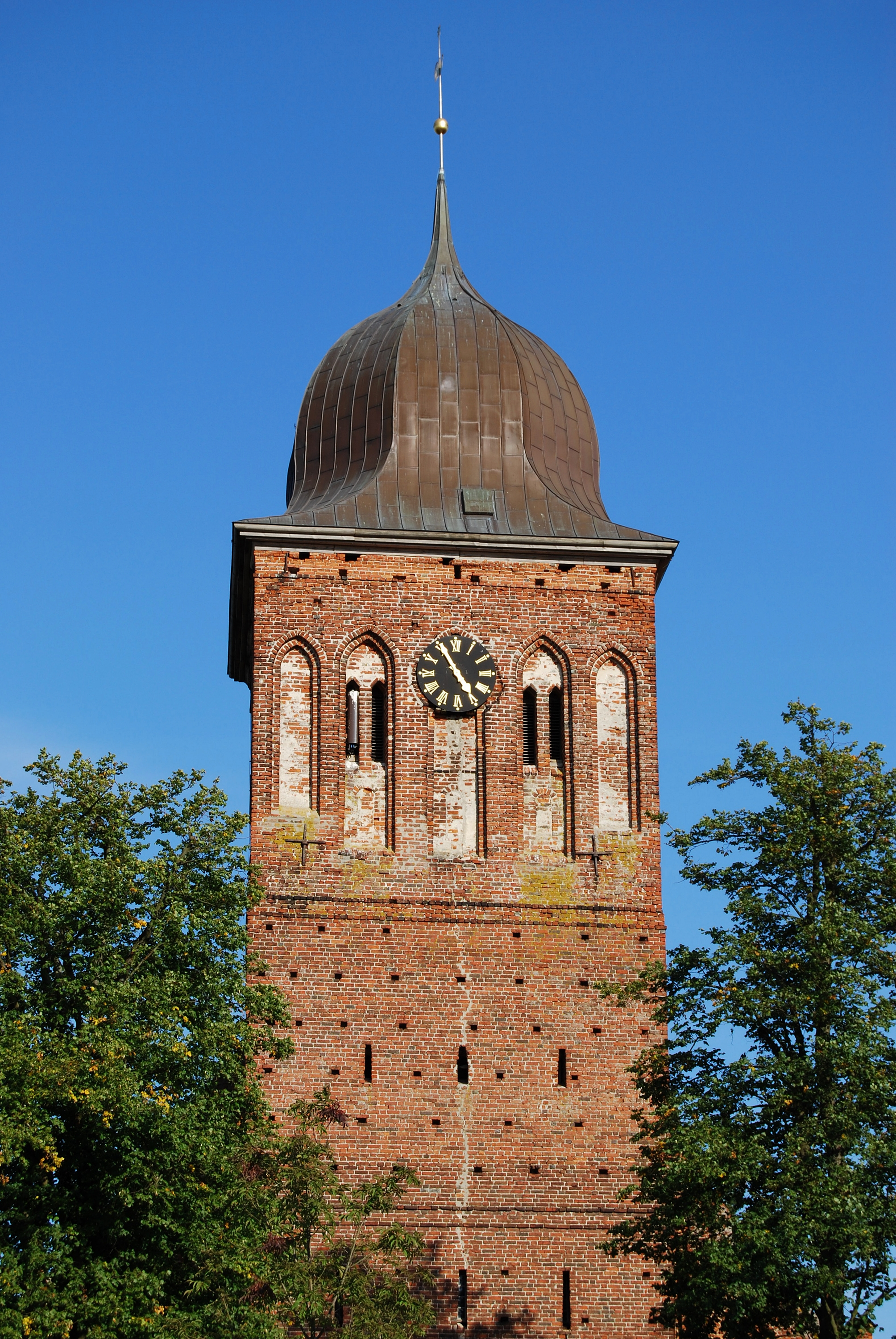 The tower of the Protestant church St. Jacob of Gingst, Rügen, Mecklenburg-Vorpommern.